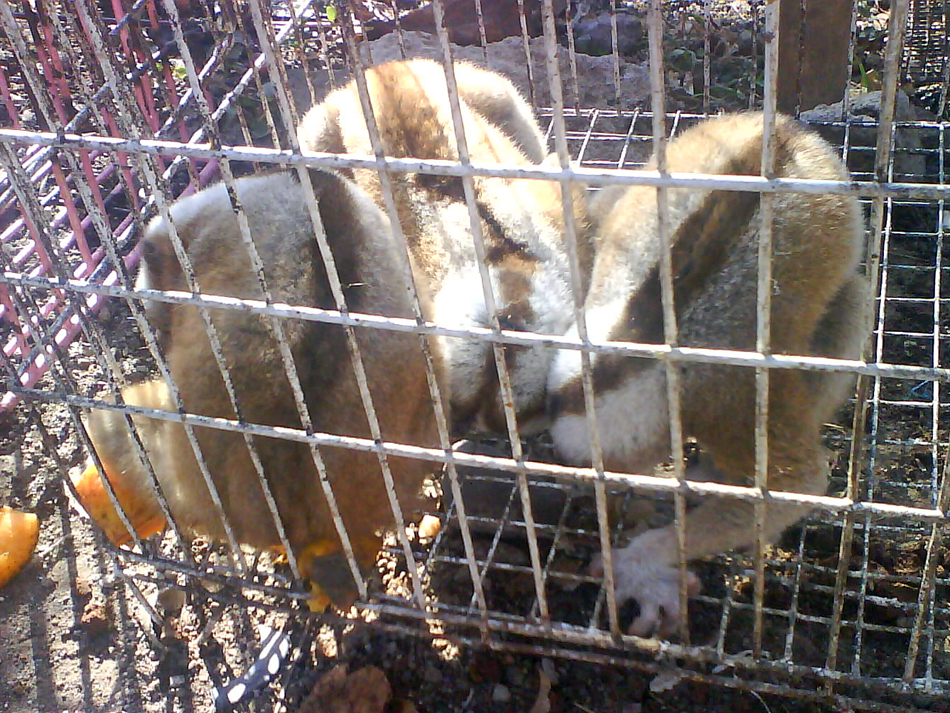 Javan slow lorises (Nycticebus javanicus) at an animal market in Ambarawa, Central Java